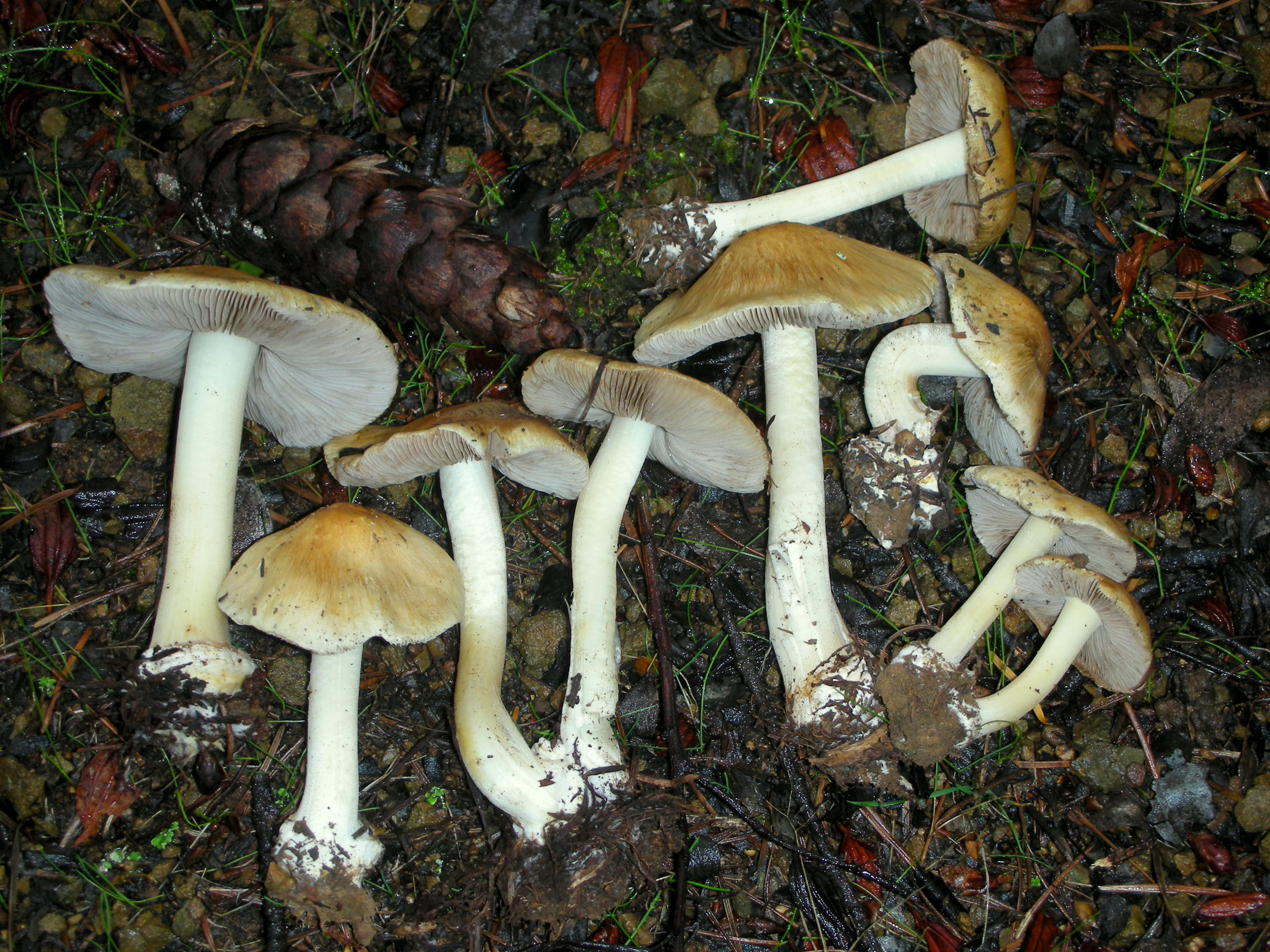 Inocybe mixtilis (Britzelm.) Sacc. Image location: Bolinas Ridge, Marin Co., California, USA These pretty much matched up to the description for I. mixtilis. The abrupt basal bulb and the nodulose, brown spores seem distinctive. Used references: Mushrooms of the Pacific Northwest; S. Trudell & J. Ammirati For more information about this, see the observation page at Mushroom Observer.